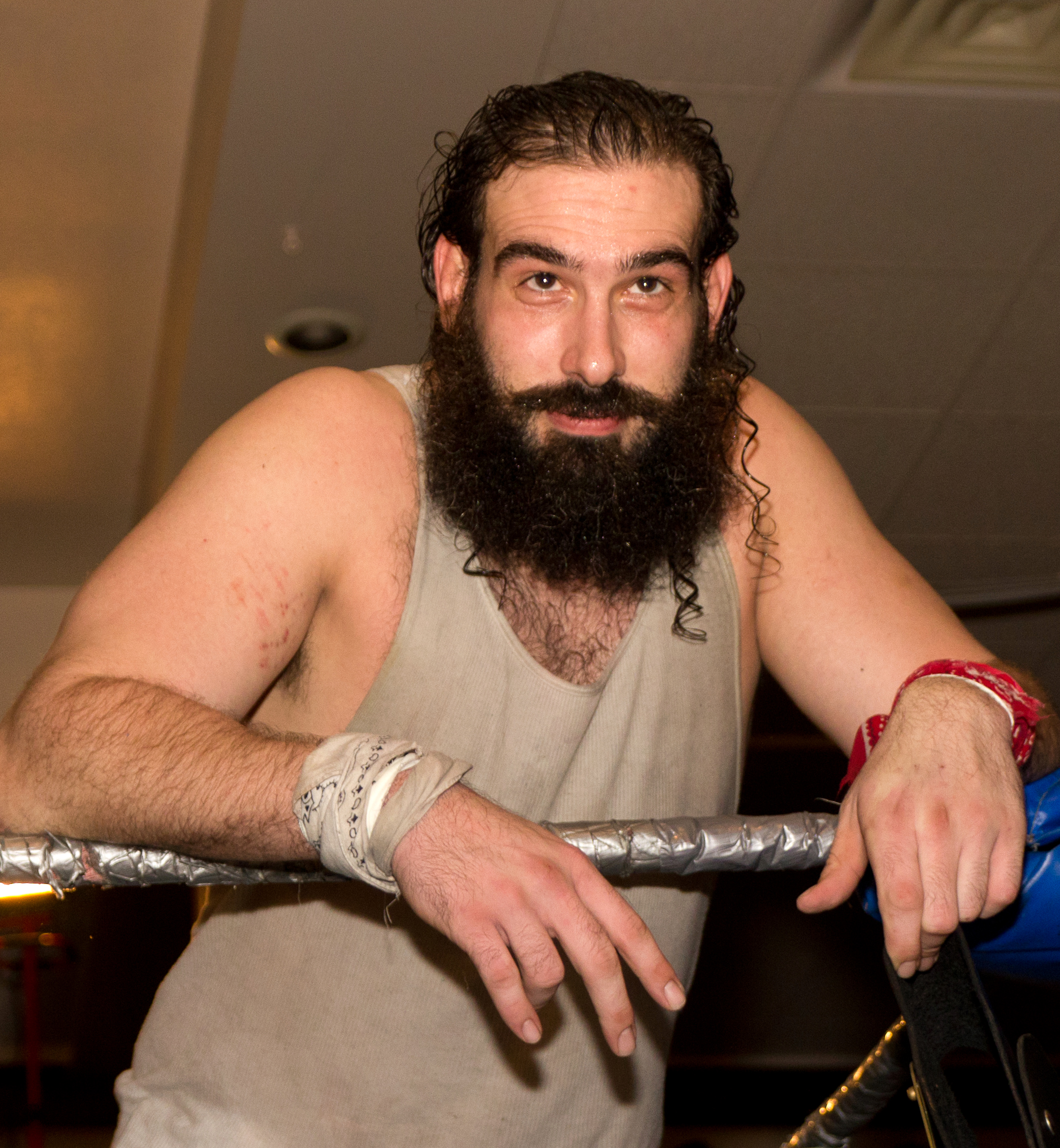 Brodie Lee at Alpha 1's "Final Act 2"